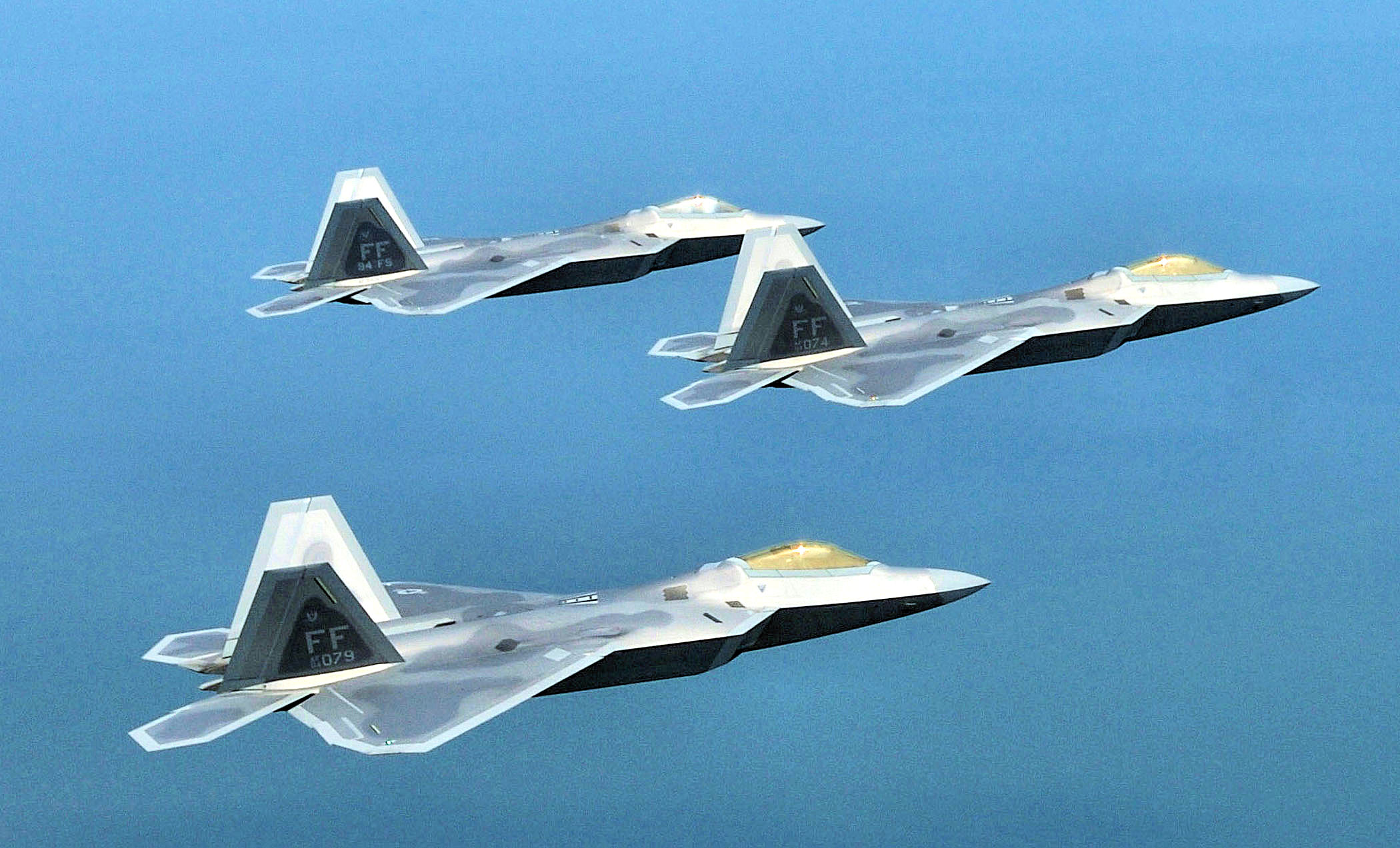 F-22A Raptor pilots with the 94th Fighter Squadron at Langley Air Force Base in Virginia, fly in 10 ship aircraft formation on Aug 17 in Celebration of the squadron’s 90th Birthday. The 94th Fighter Squadron is the second continuously-active fighter squadron in the United States. Formed on Aug 20, 1917, at Kelly Field, Texas, it is the first all-American squadron to fly a patrol in France during World War I. (United States Air Force Photo by Staff Sgt Samuel Rogers)